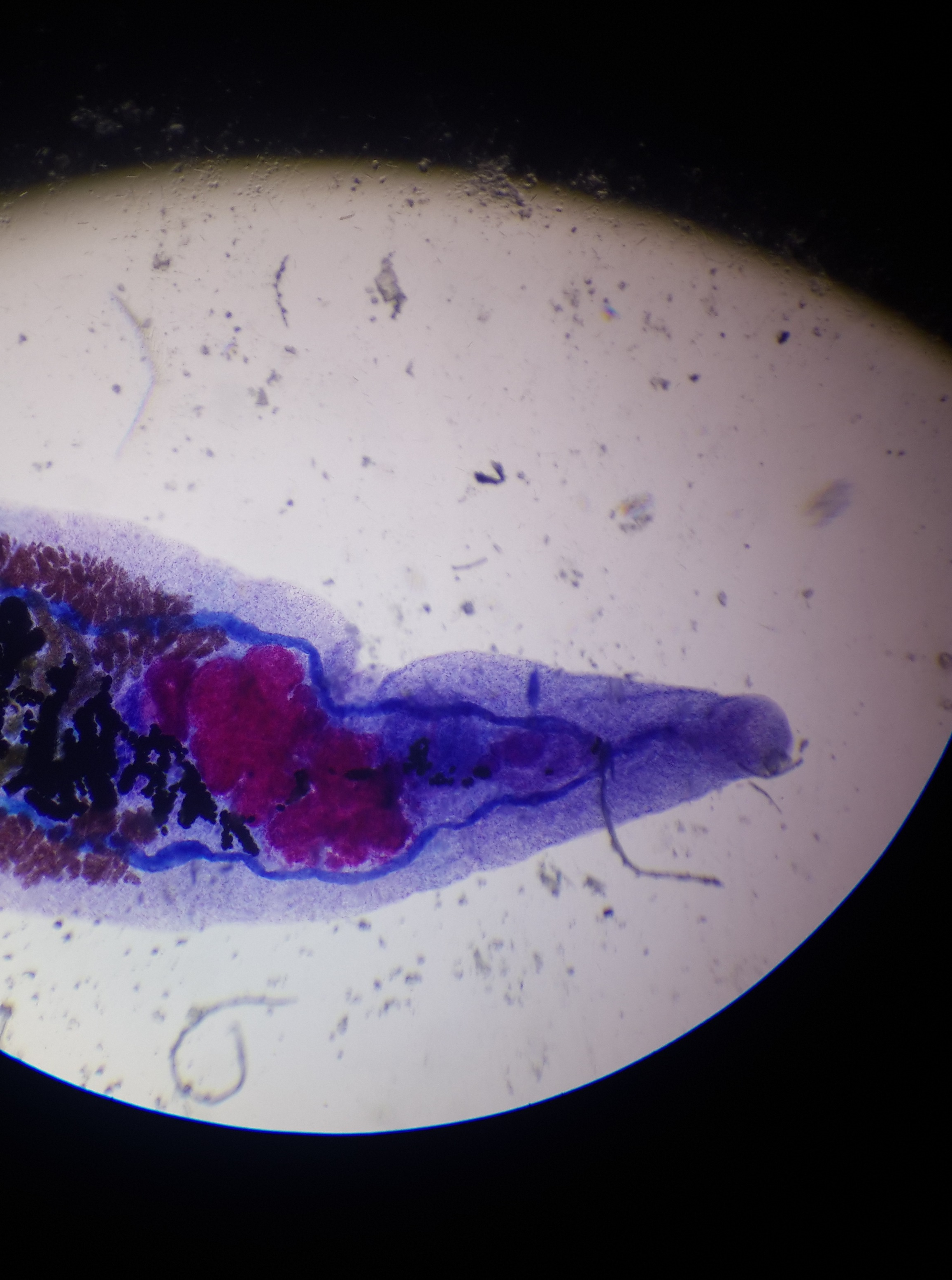 دیکروسلیوم دندرتیکوم